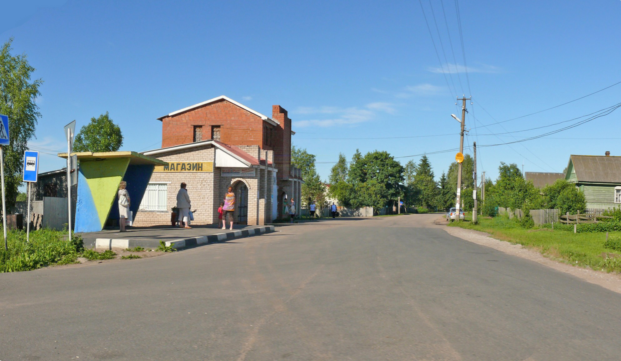 Ilmen village. Novgorodsky district, Novgorod oblast, Russia